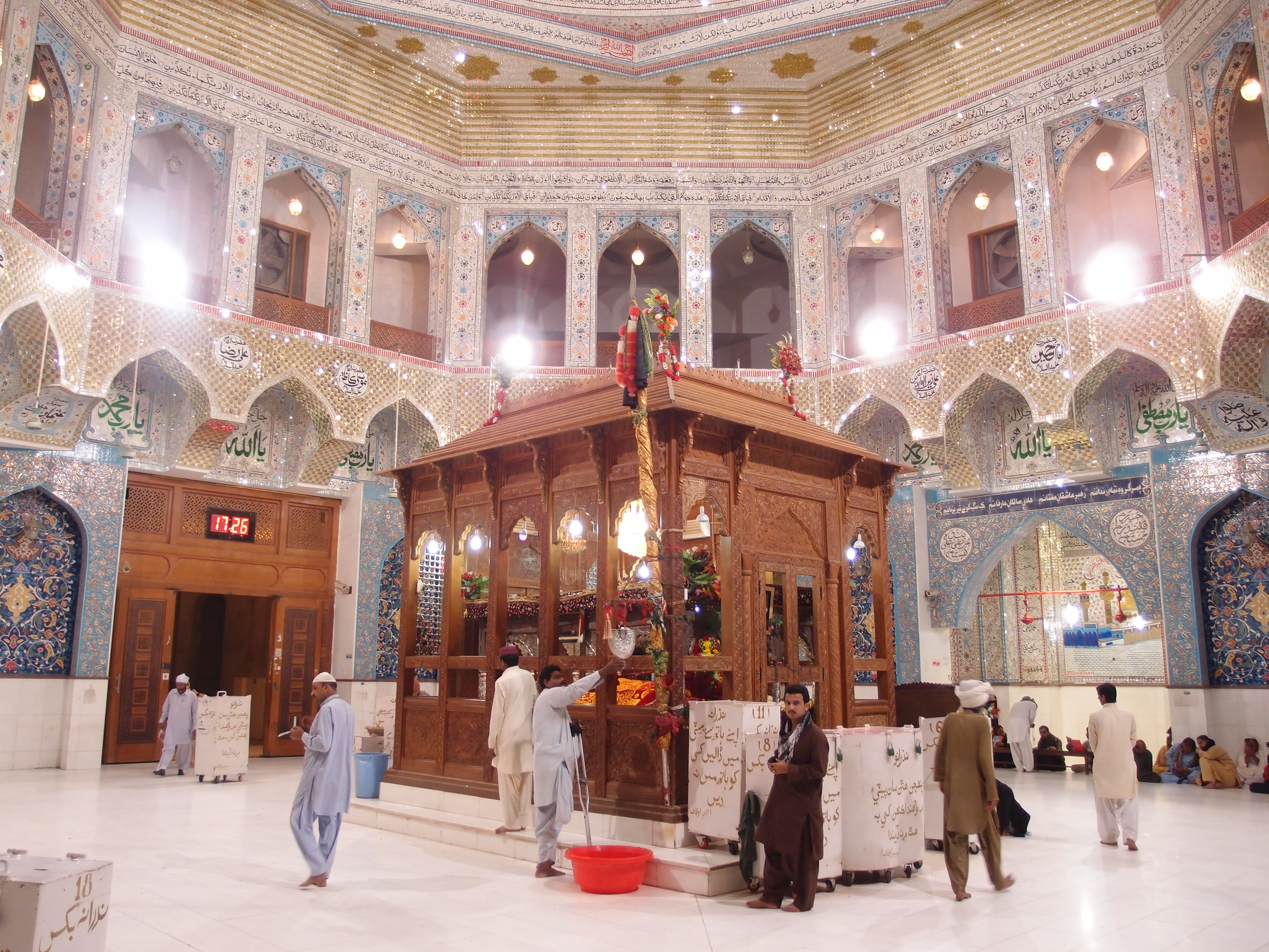 Lal Shahbaz Mazaar inside view